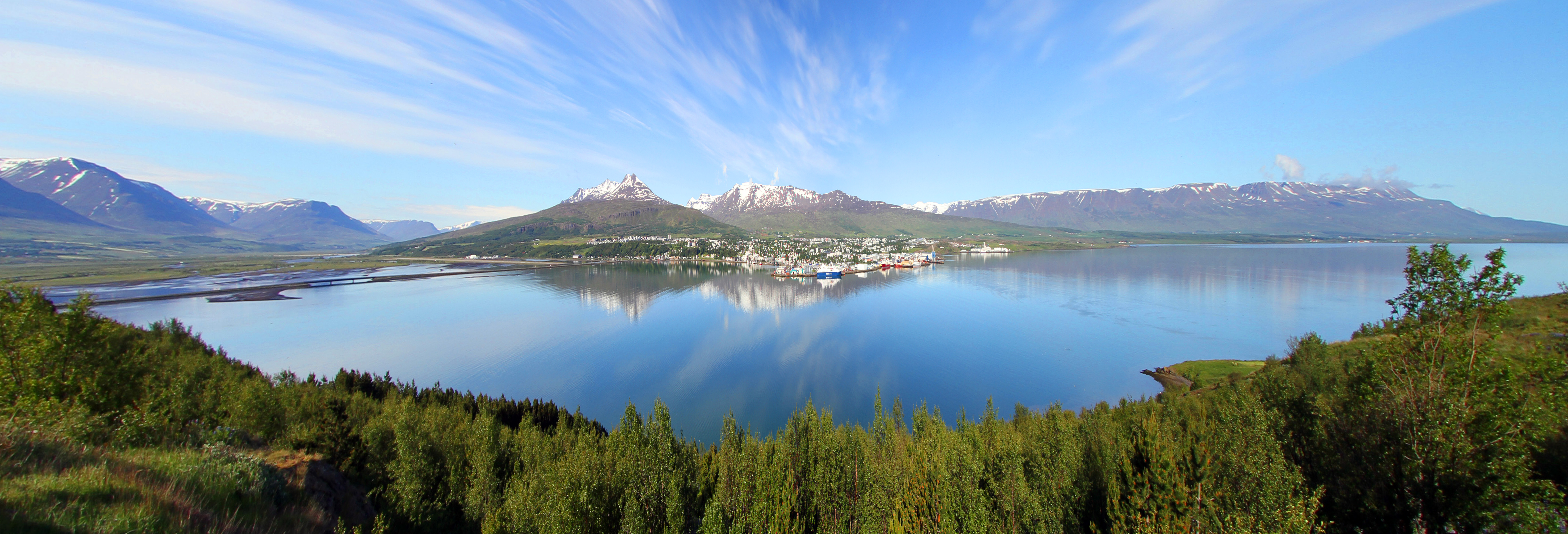 Akureyri in Iceland